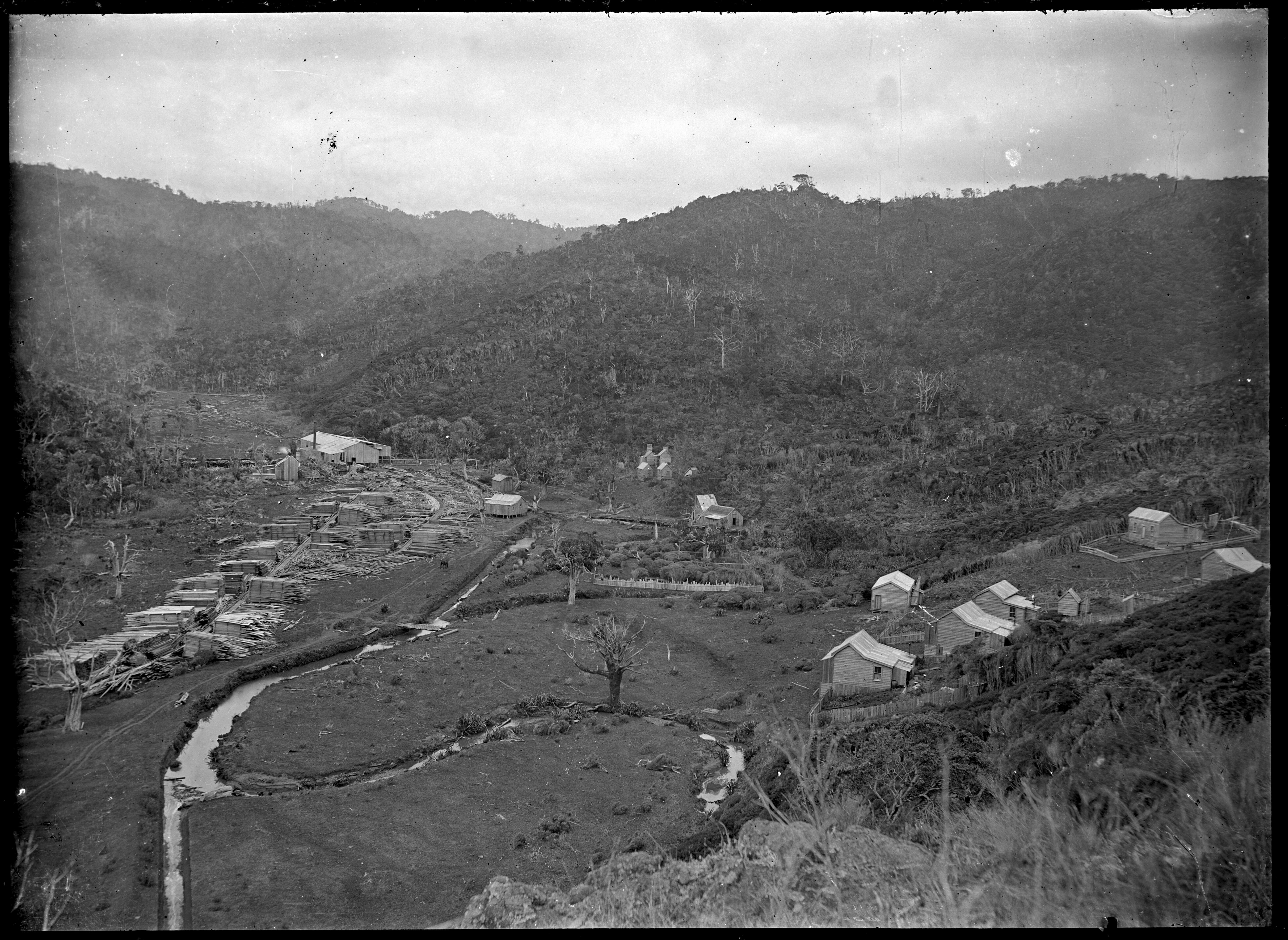 Timber settlement at Piha. Shows bush, workers dwellings, timber yards, a mill building and a stream. Taken by Albert Percy Godber in 1915-1916.